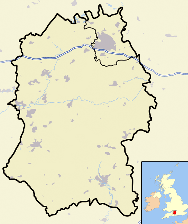 Map of the county of Wiltshire, England, United Kingdom, showing the post-2009 district boundaries.